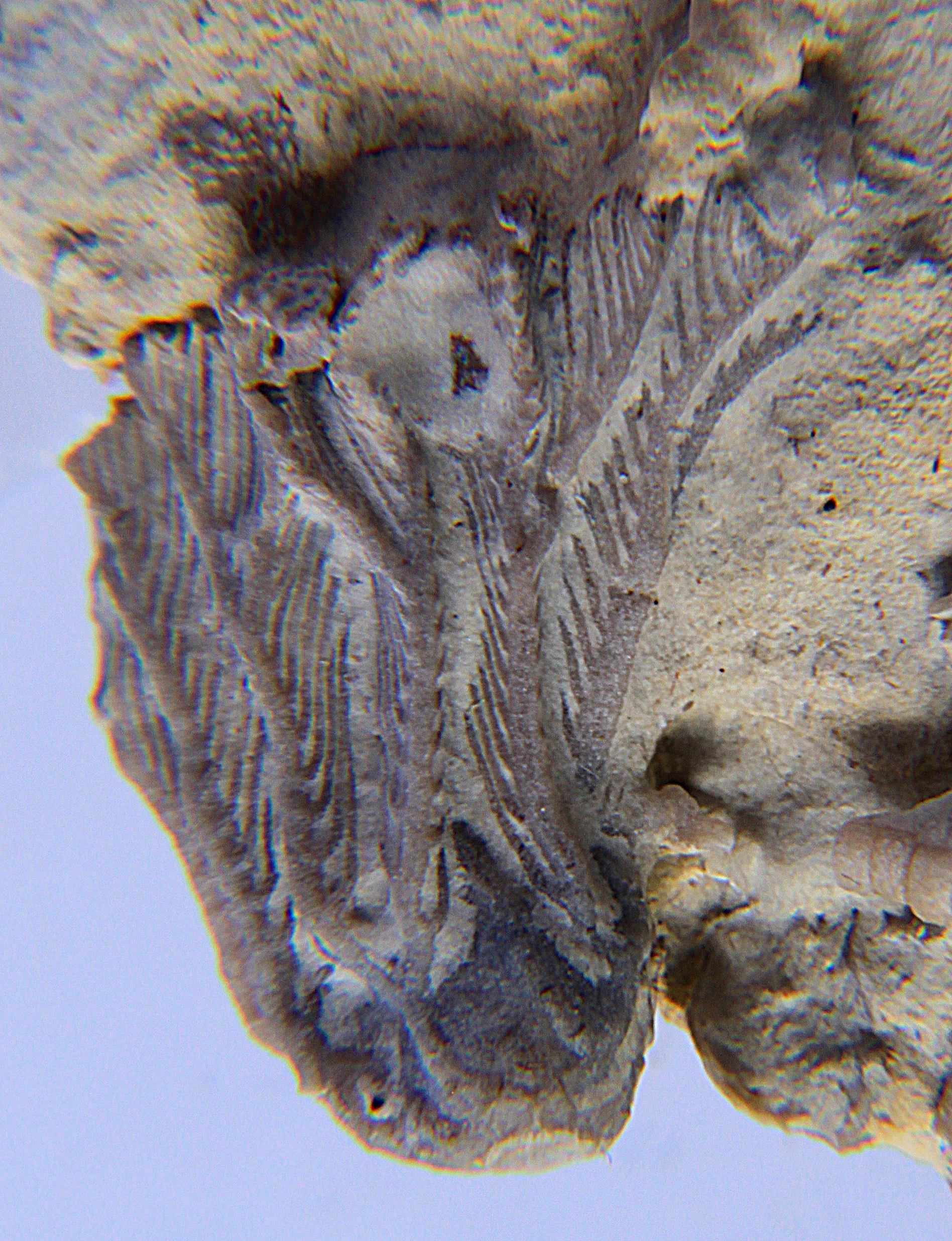 An Anthracocrinus primitivus sealilly, Class Crinoidea, Order Diplobathrida, 15mm cup and arms, collected at the Pooleville Member of the Bromide Formation, Carter County Oklahoma, USA, from the early Upper Ordovician (Sandbian)